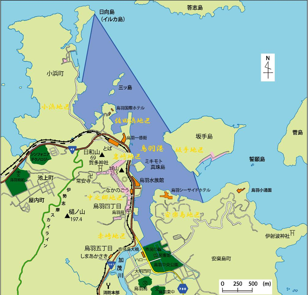 This is a map of Toba port, Mie, Japan. Dark blue is Toba port, light blue is water (sea, river, ponds and so on), pink is urban area, dark green is open space (schools, parks, factories and so on), light green is land, orenge is major buildings, brown is Japanese national routes and yellow is Mie prefectural roads.